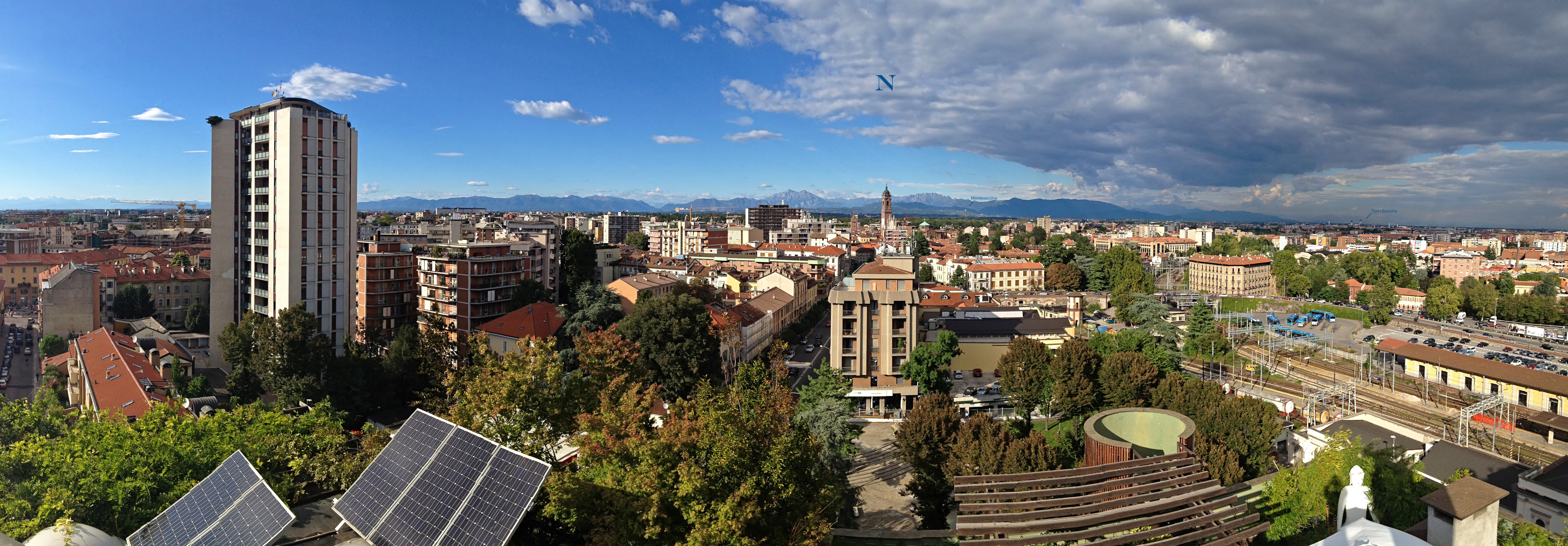 View over the town of Monza, Italy.